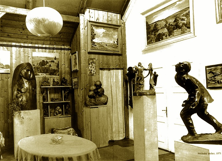 Leoš Kubíček - Atelier in Pěčín